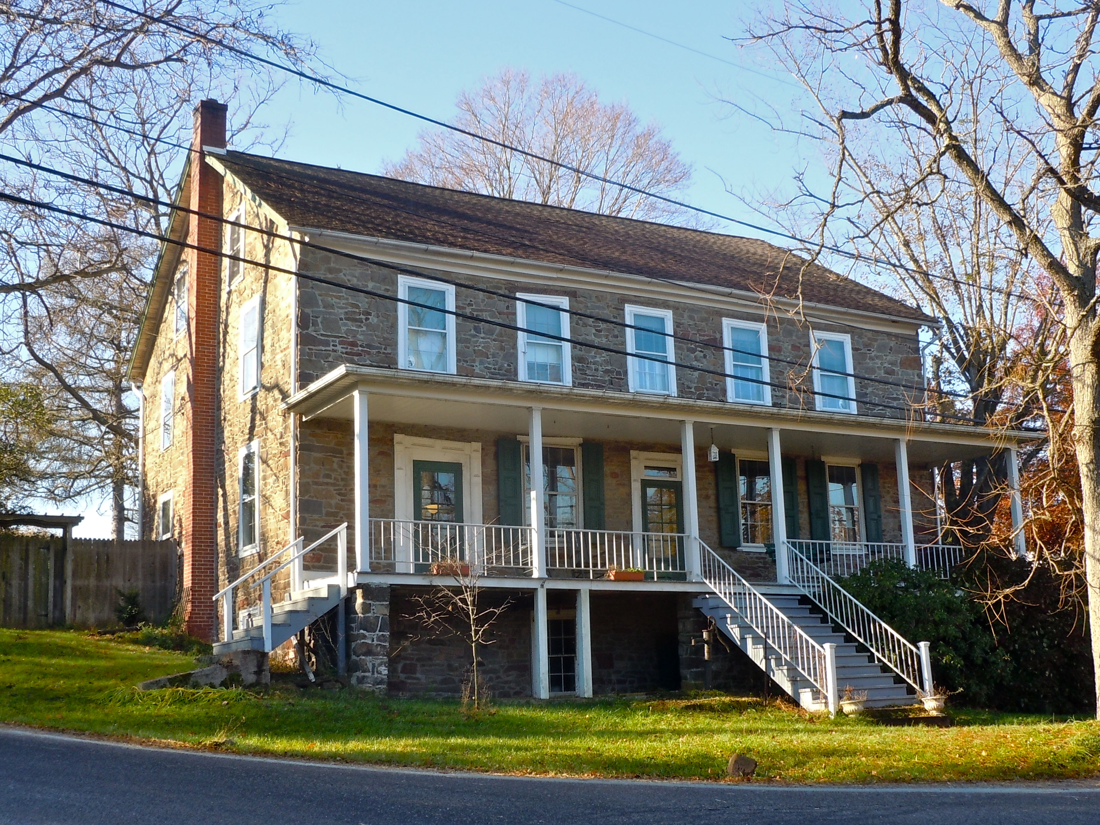 House in Bergy Bridge Historic District on the NRHP since October 10, 1973. Northwest of Harleysville just 2 blocks off Pennsylvania Route 63, Harleysville, Montgomery County, Pennsylvania. House at main intersection west and above the bridge.